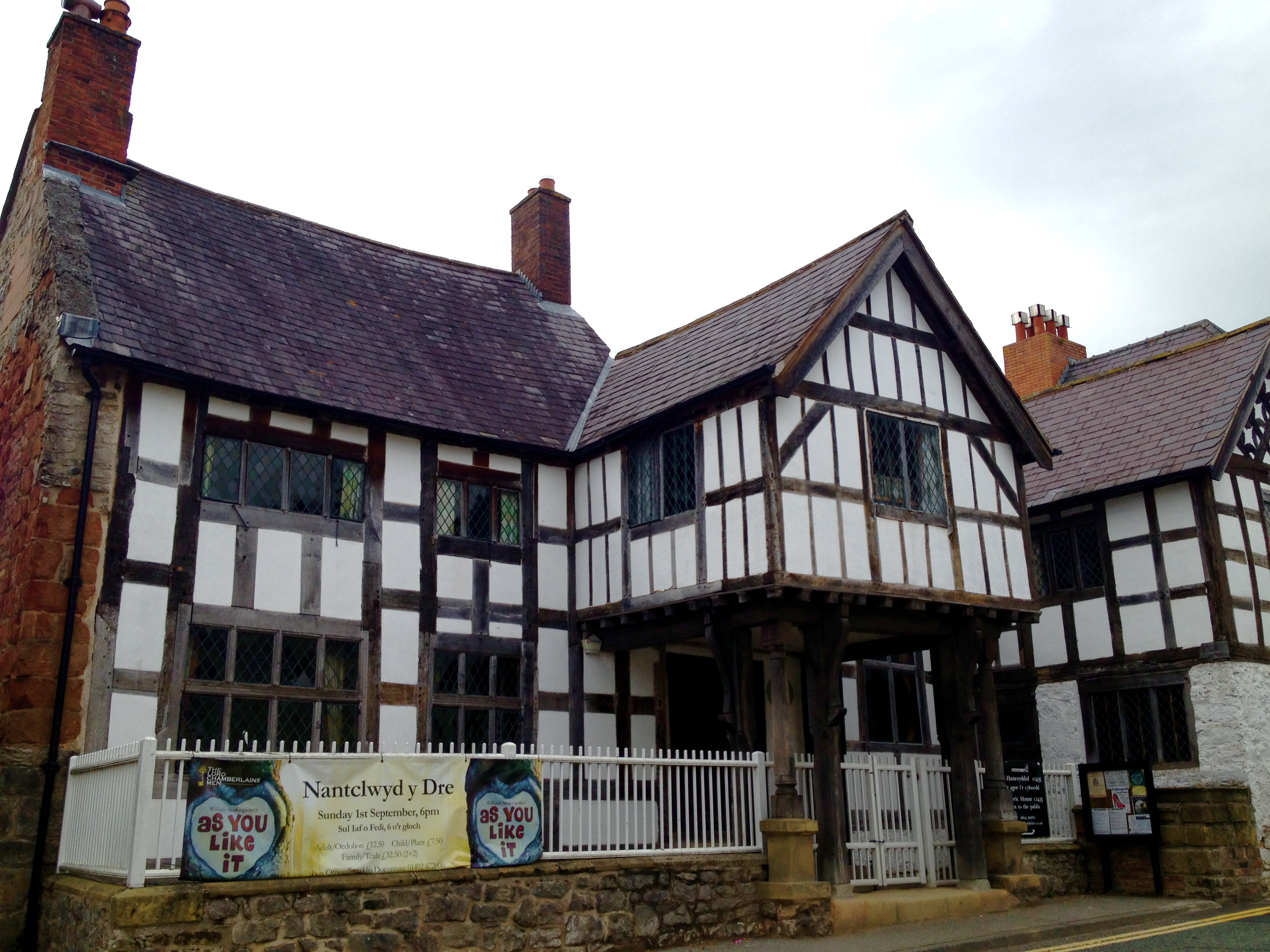 One of the oldest town houses in North Wales. The present house is 16th century, but there are traces from even earlier periods.